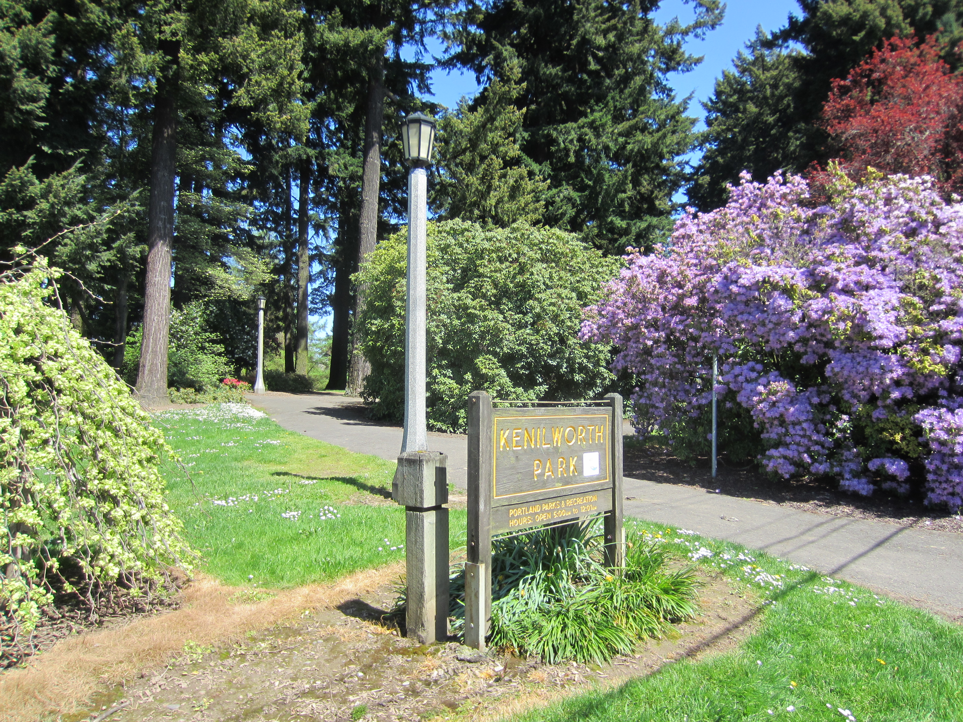 Kenilworth Park in southeast Portland, Oregon in 2012